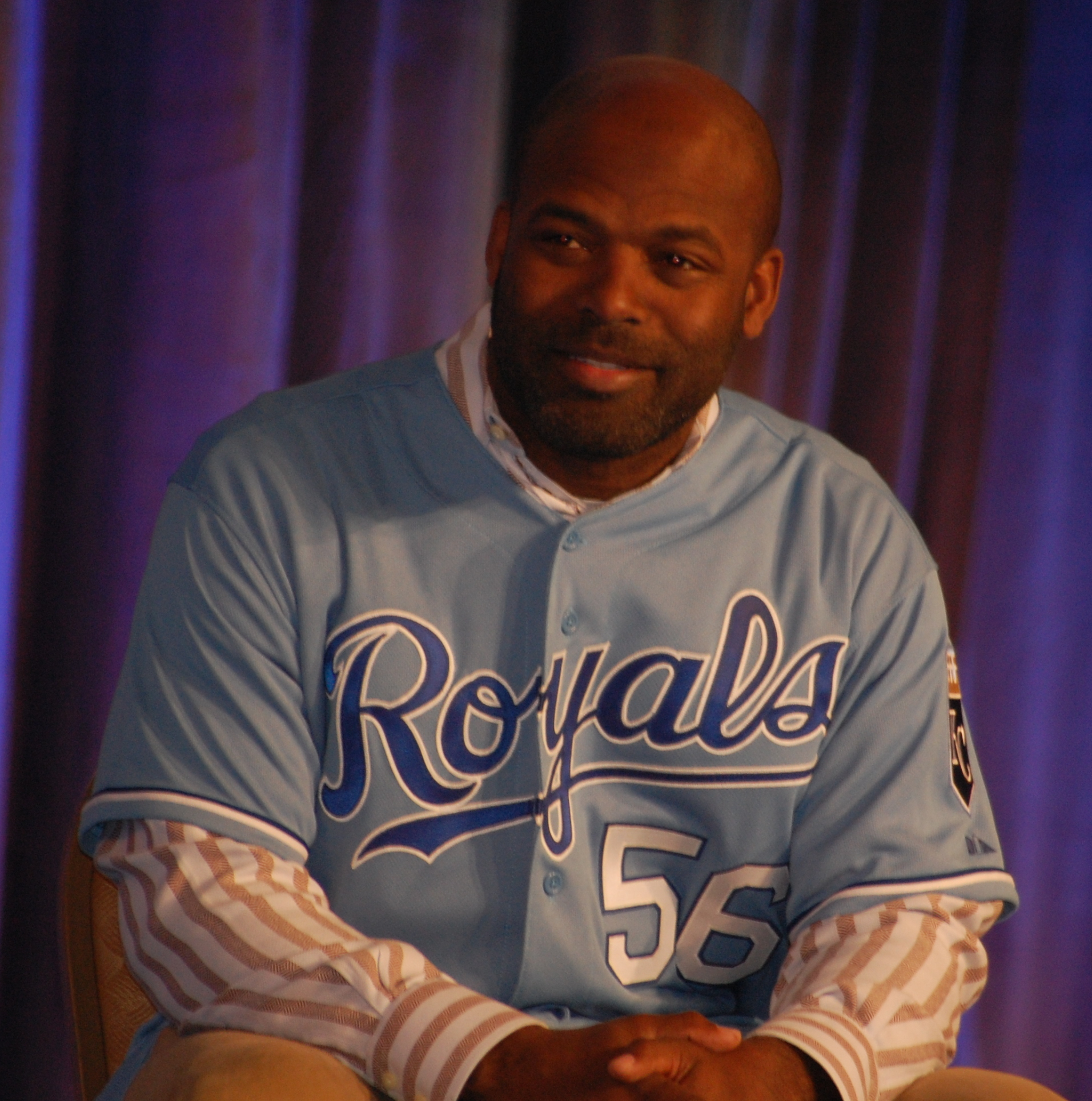 Brian McRae at Kansas City Royals FanFest in 2011